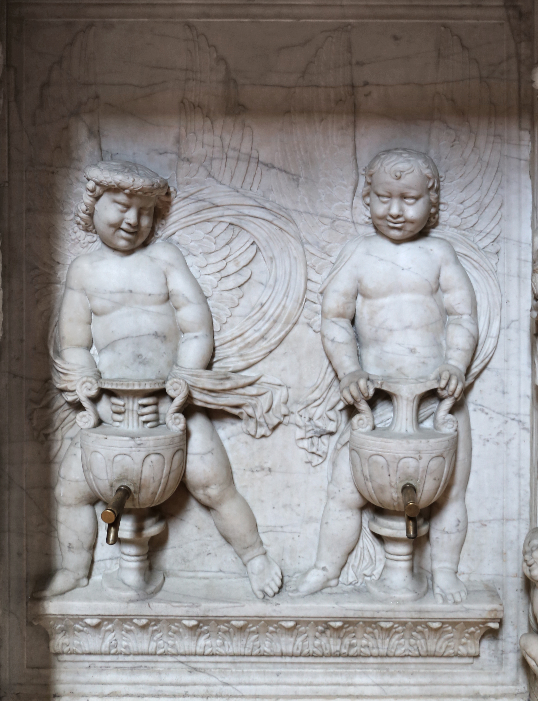 Santa Maria del Fiore (Florence) - Sagrestia dei Canonici - Washbasin by Il Buggiano